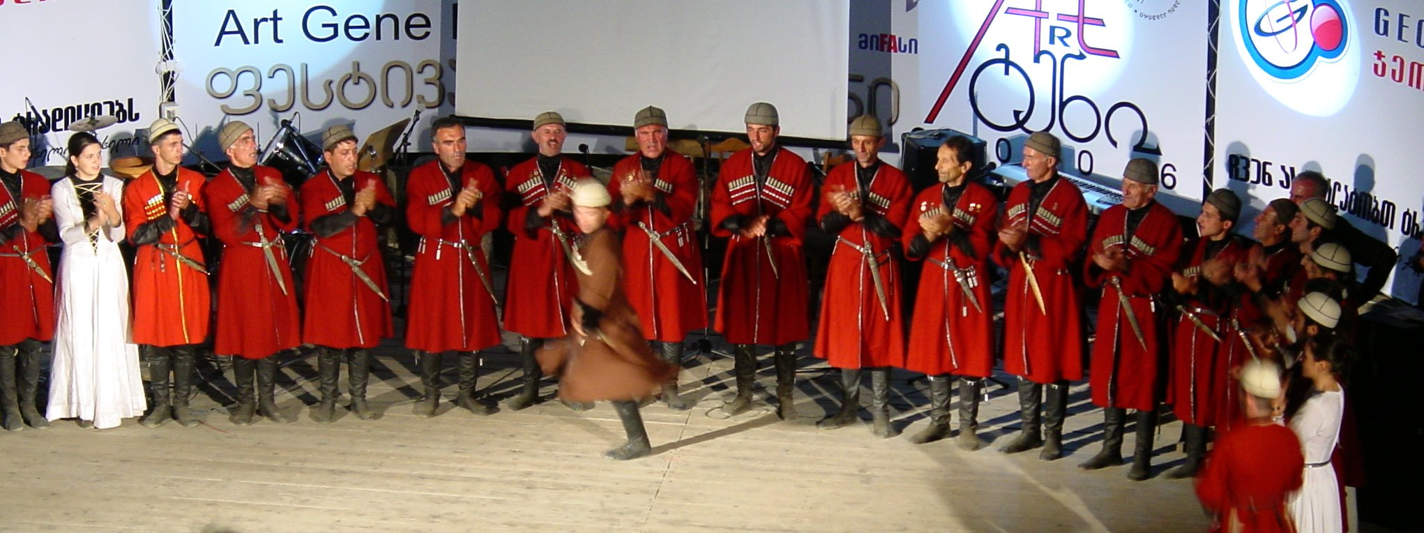 Svanetian dance